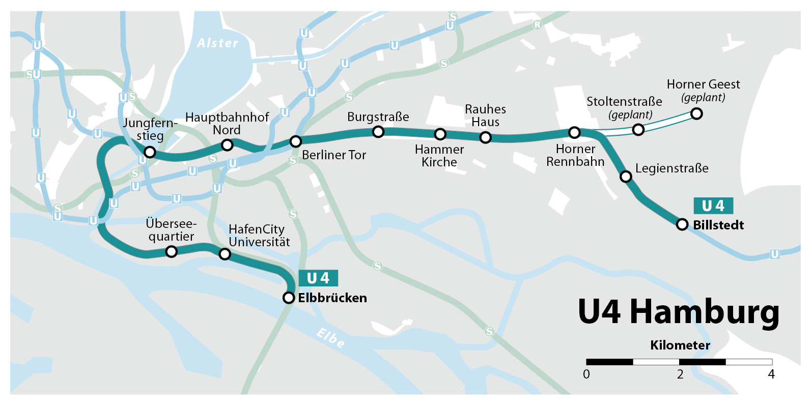 Map of Hochbahn Hamburg route U4